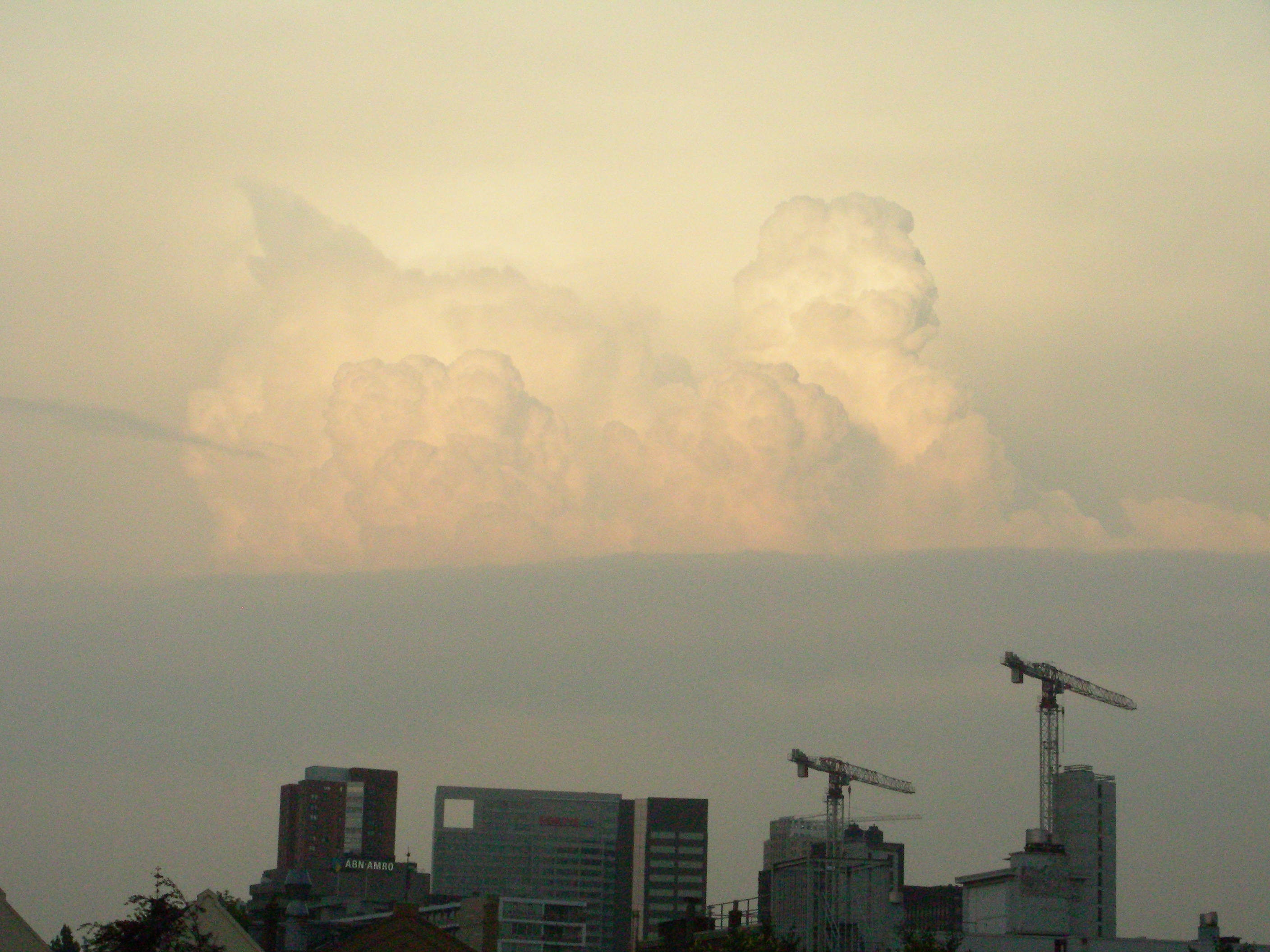 Large Cumulonimbus clouds over the banks of Rotterdam (ABN AMRO and Fortis) at dusk, seemingly a foreboding of the financial crisis striking 8 weeks later